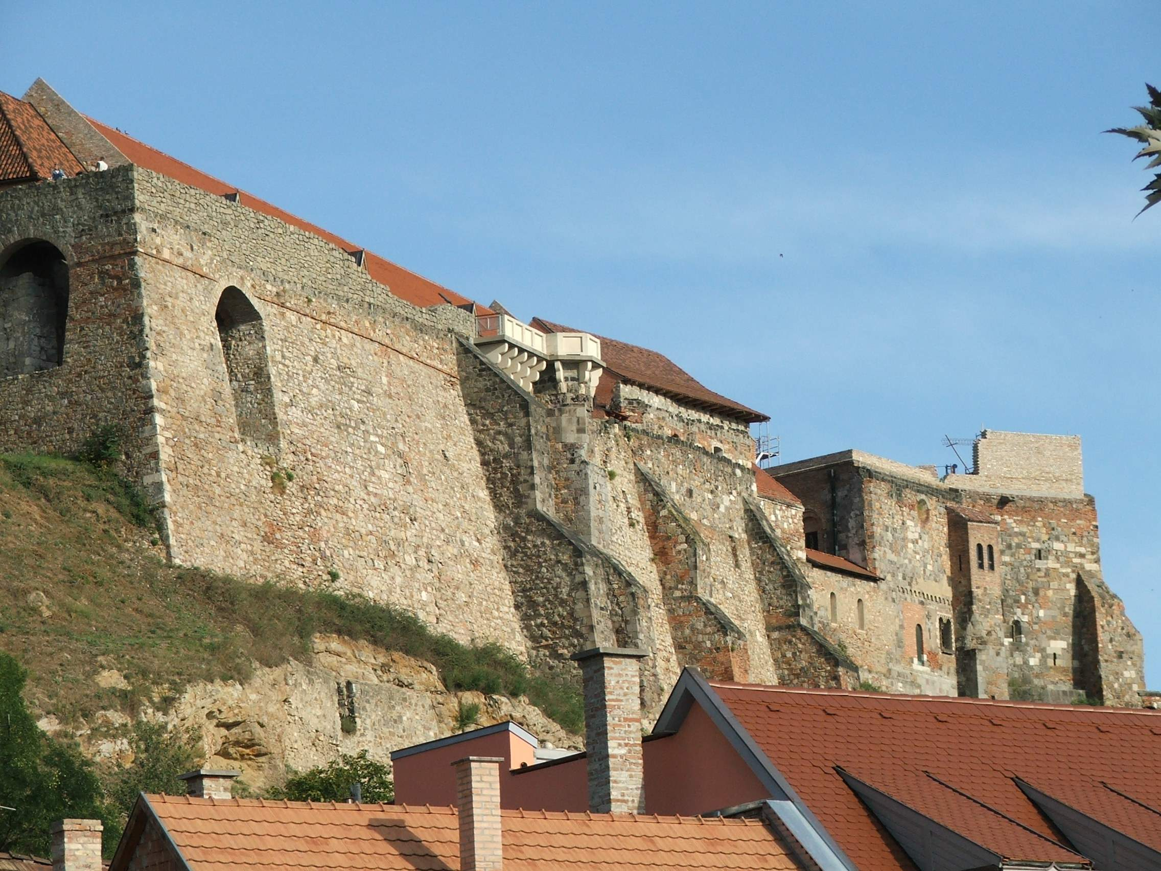 Southern part of the Castle of Esztergom, Hungary